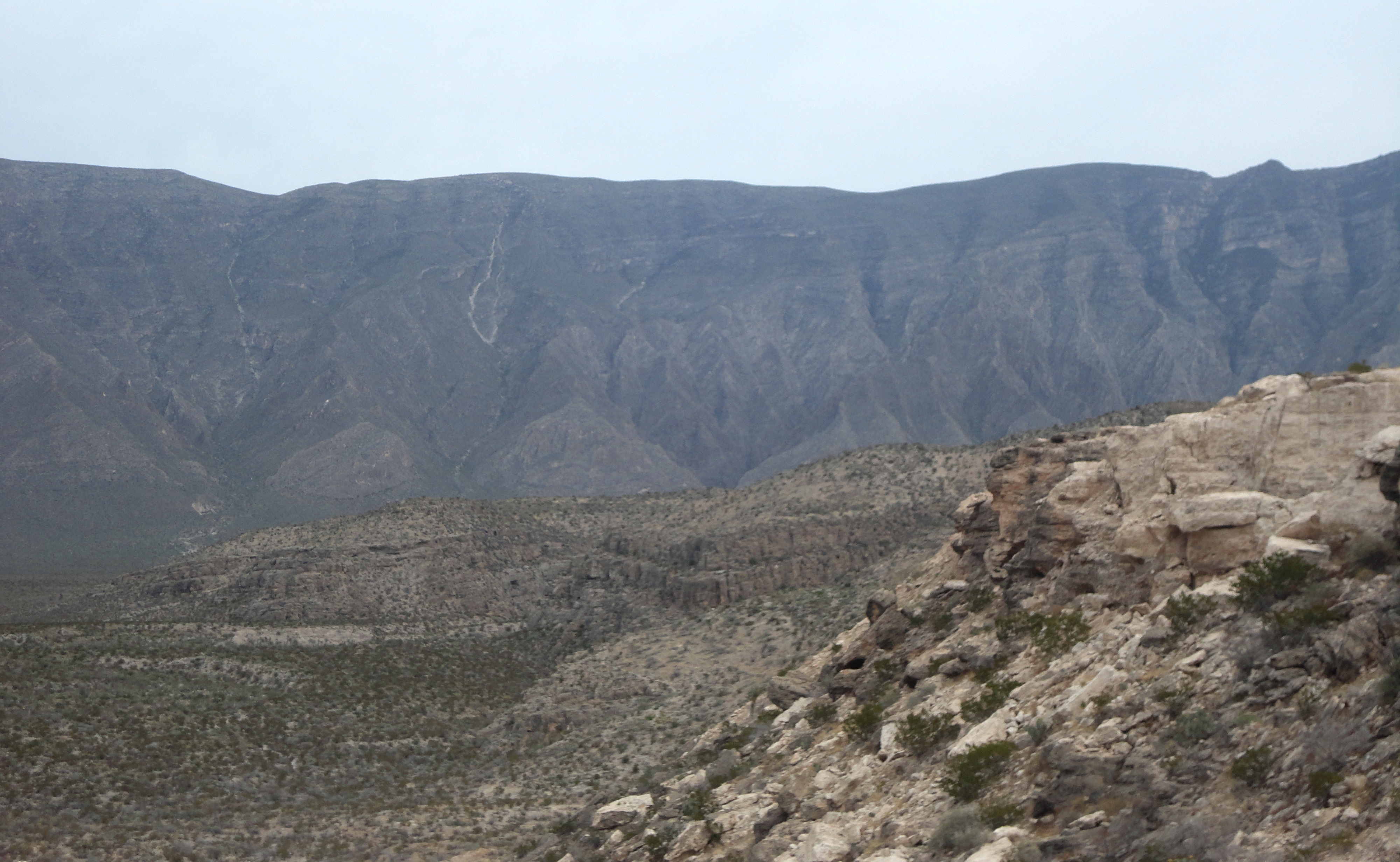 Región Centro Desierto de Coahuila, part of Chihuahuan Desert.